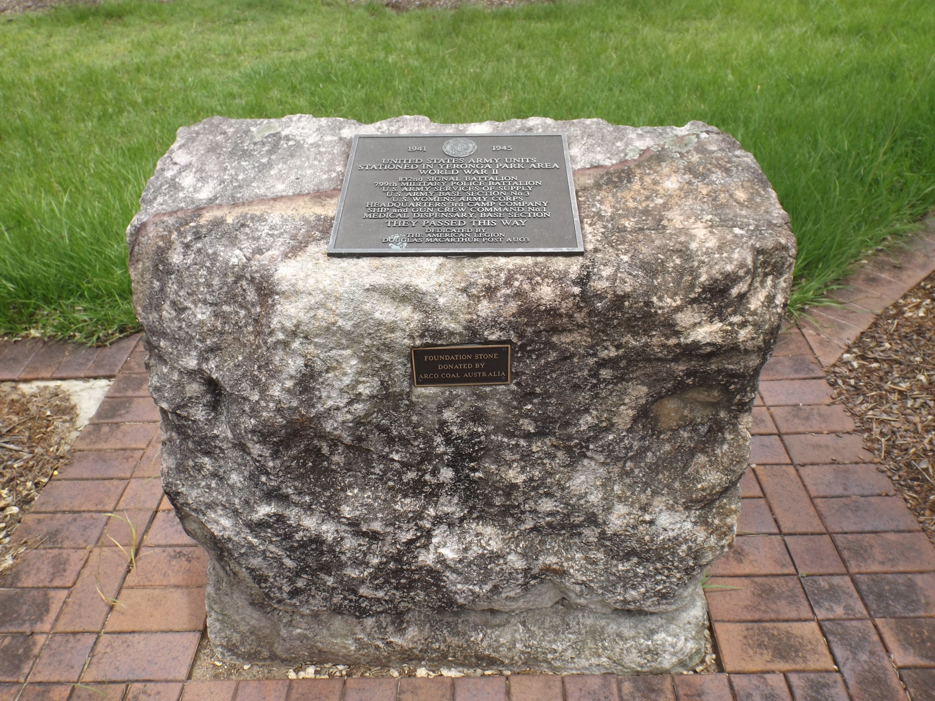 Photo of cenotaph foundation stone at Yeronga Memorial Park, Yeronga, Brisbane, Queensland, Australia.